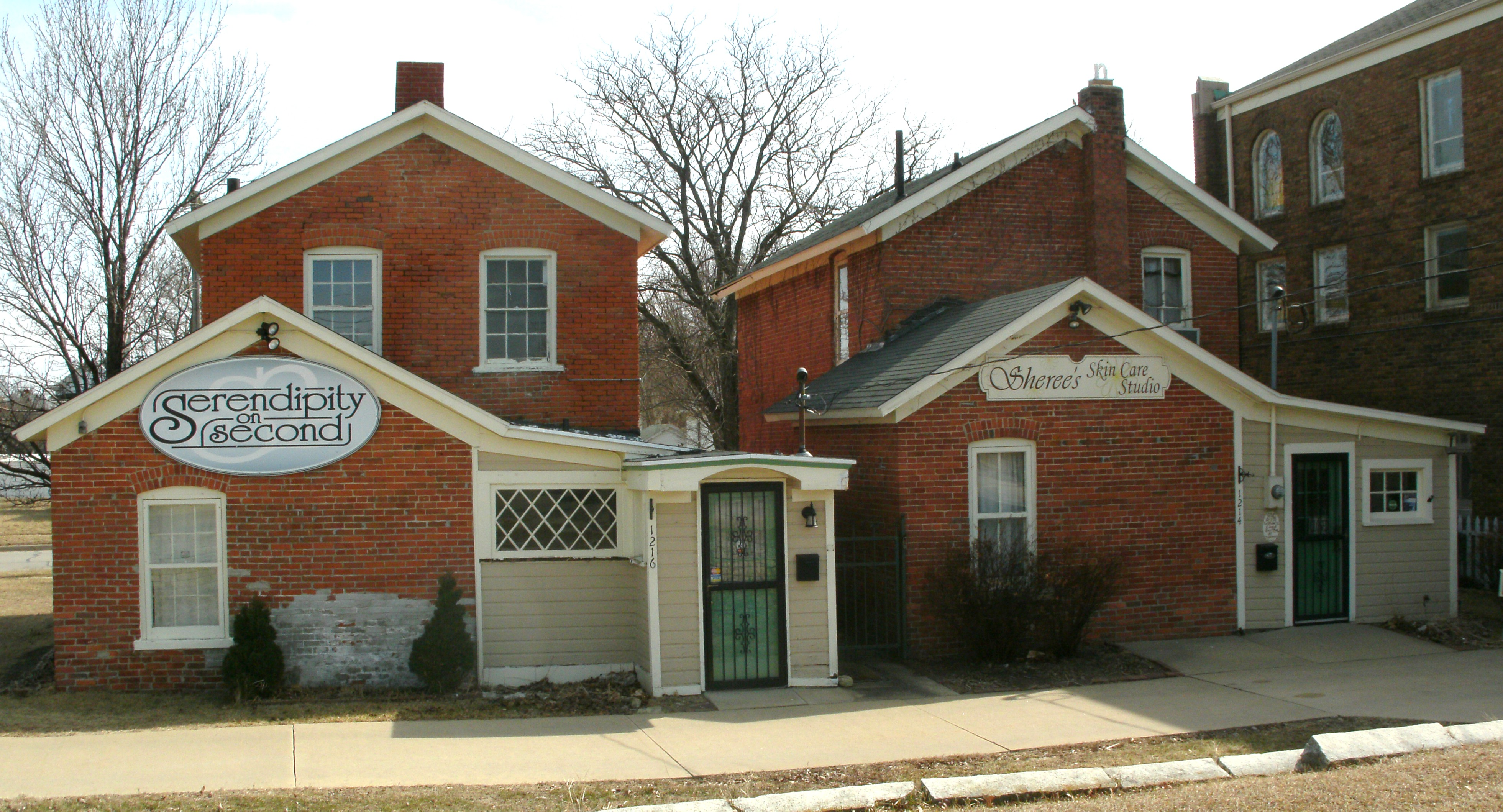 The Calder Houses located at 1214 and 1216 2nd Avenue Southeast in Cedar Rapids, Linn County, Iowa is on the National Register of Historic Places. Currently as of March 2011 each house is the location of a business. 1214 houses Sheree's Skin Care Studio and 1216 houses Serendipity on second. Rear view, showing businesses entrances.